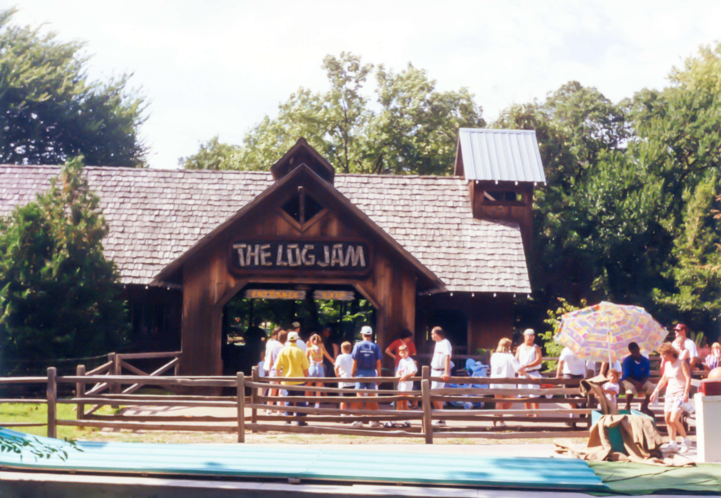 Entrance of Log Jam log flume ride at Joyland Amusement Park in Wichita, Kansas.